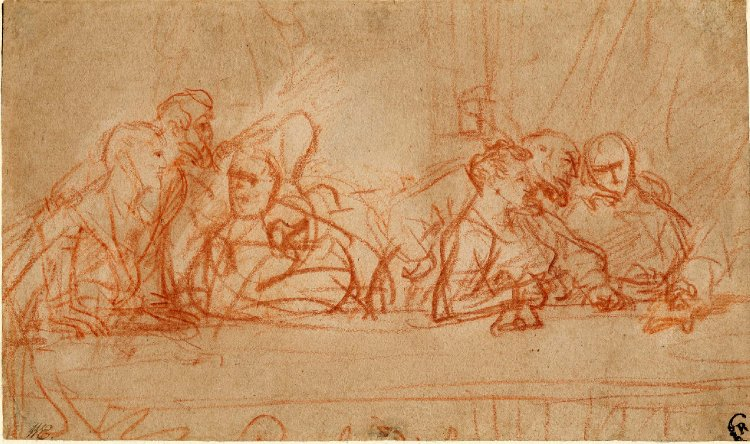 The Last Supper, after Leonardo da Vinci